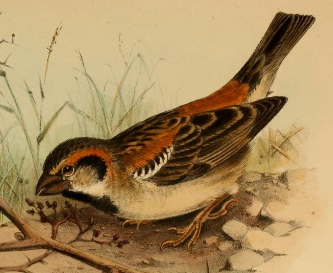 A detail of an illustration by Henrik Grönvold showing a Shelley's Sparrow, from G. E. Shelley's Birds of Africa